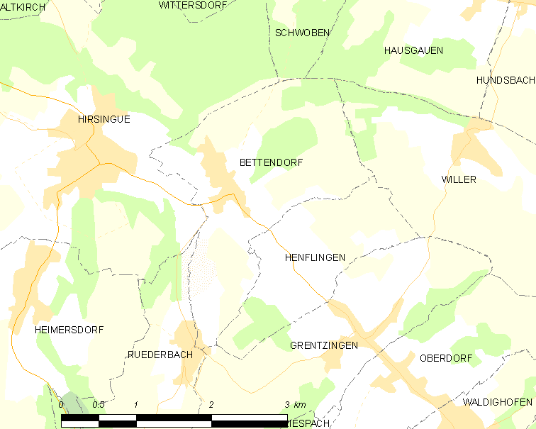 Map of French municipality